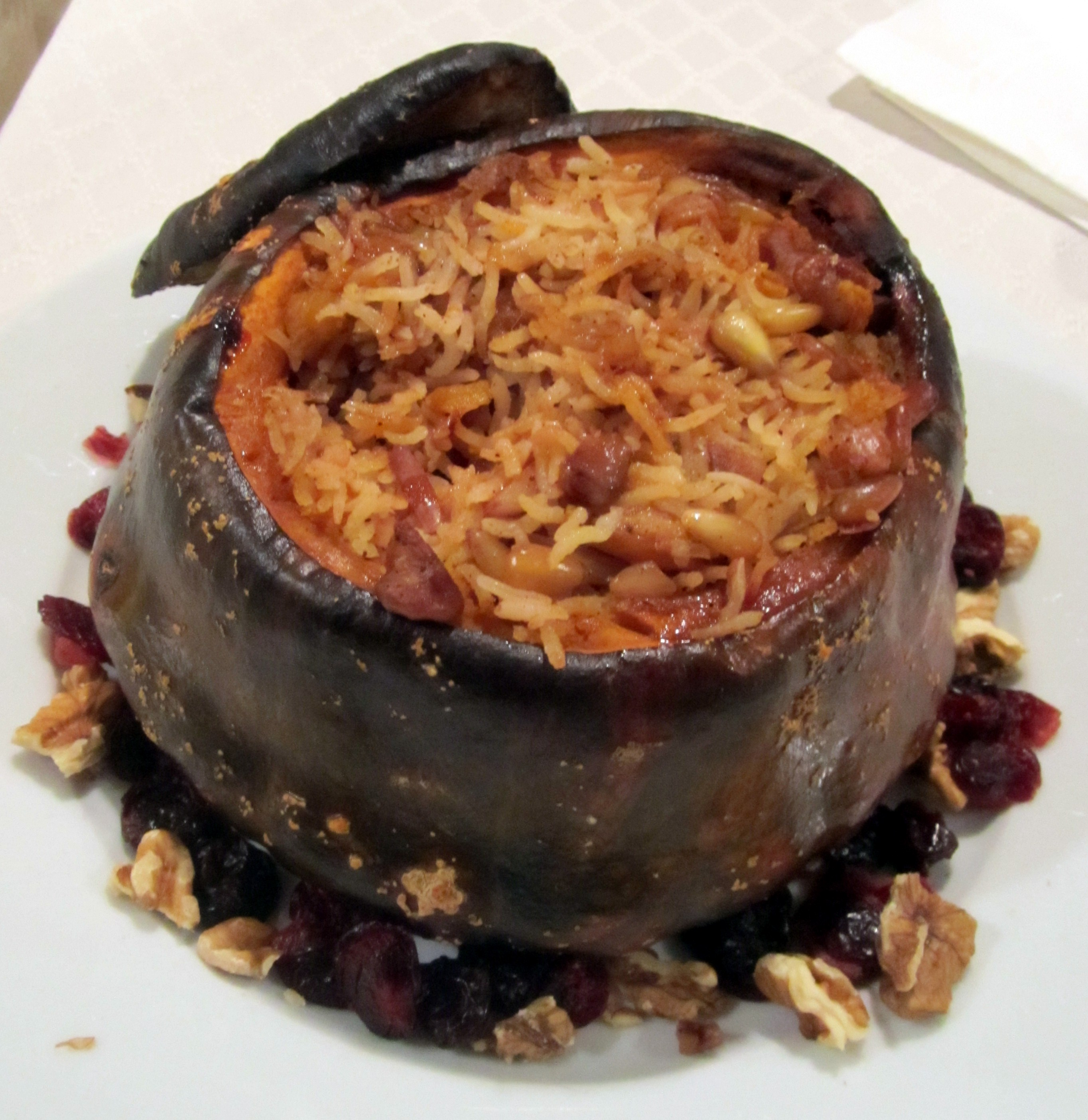 Mini ghapama made with butternut squash (Armenian dish made with baked pumpkin stuffed with rice, nuts, and dried fruits)